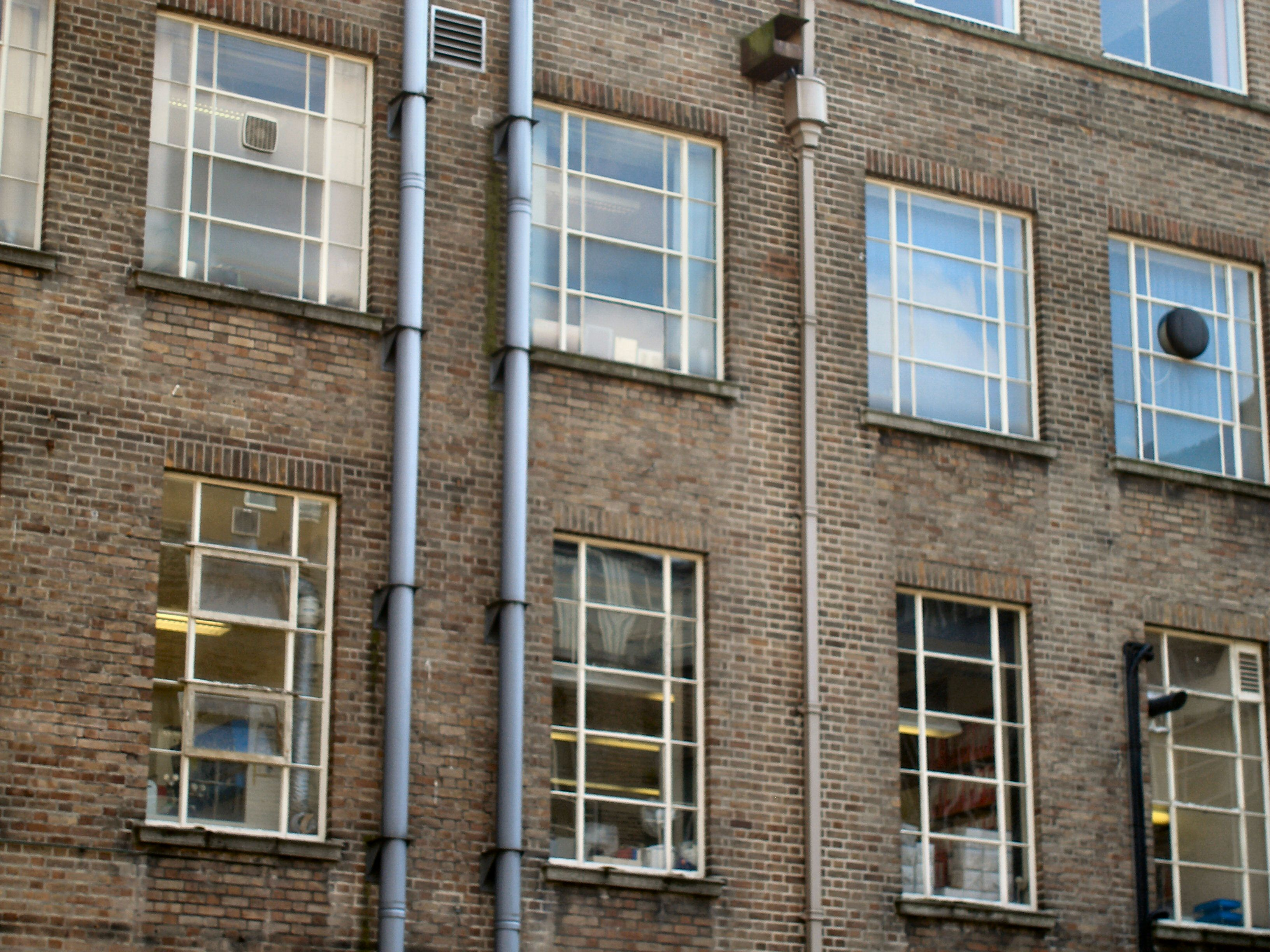 The rear of the east wing of the Medical School showing the location of the virology laboratory with the anatomy department above